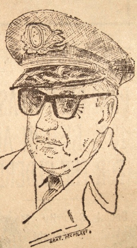 dwawing commissioned by The New York Times.